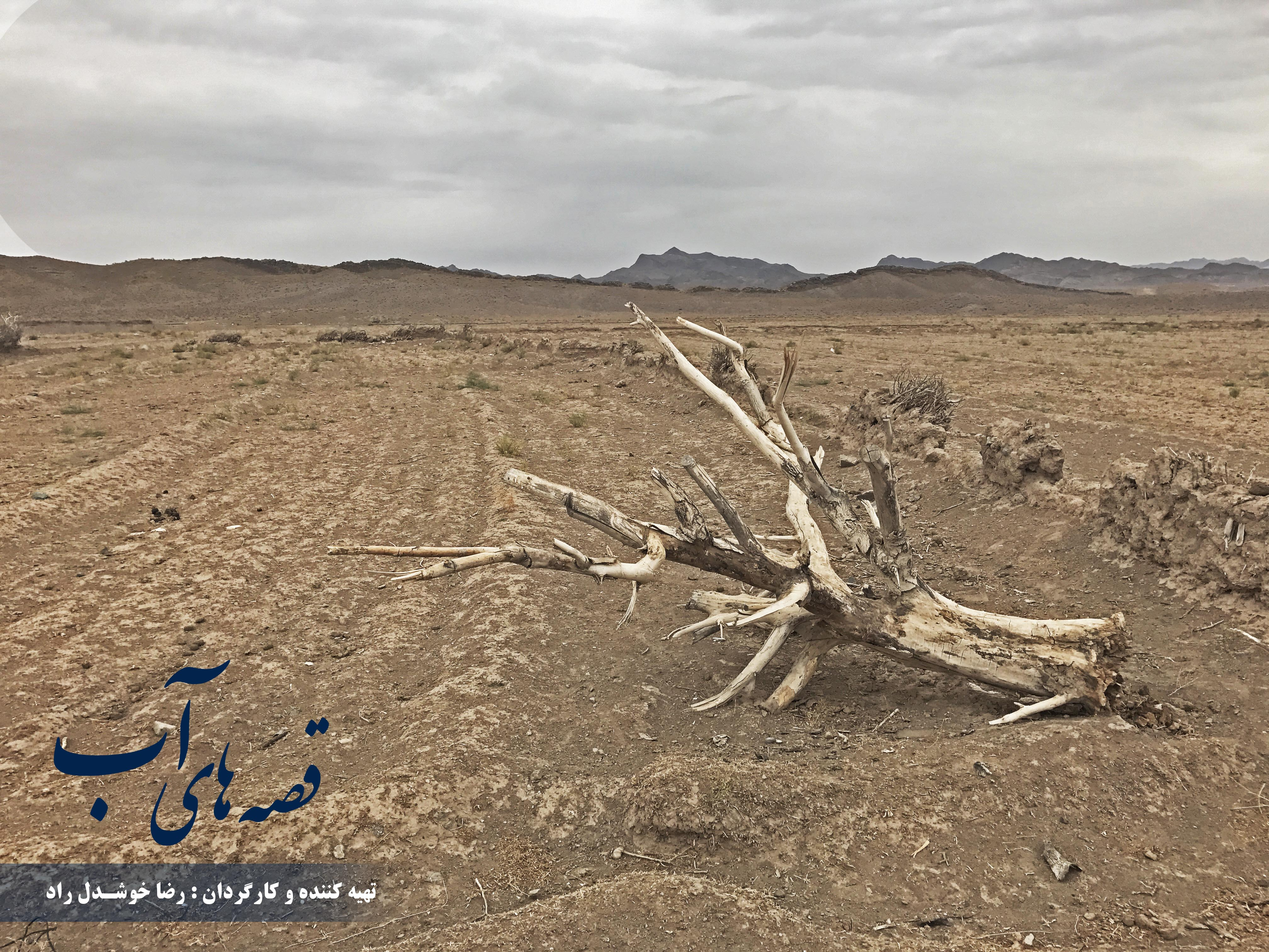 قصه های آب